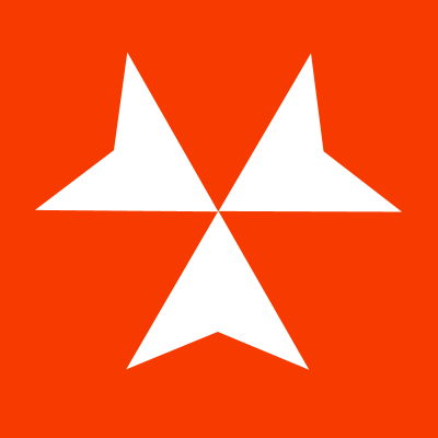 A reproduction of the logo of the Hamburg Atlantic Line (also used by German Atlantic Line and Hanseatic Tours)